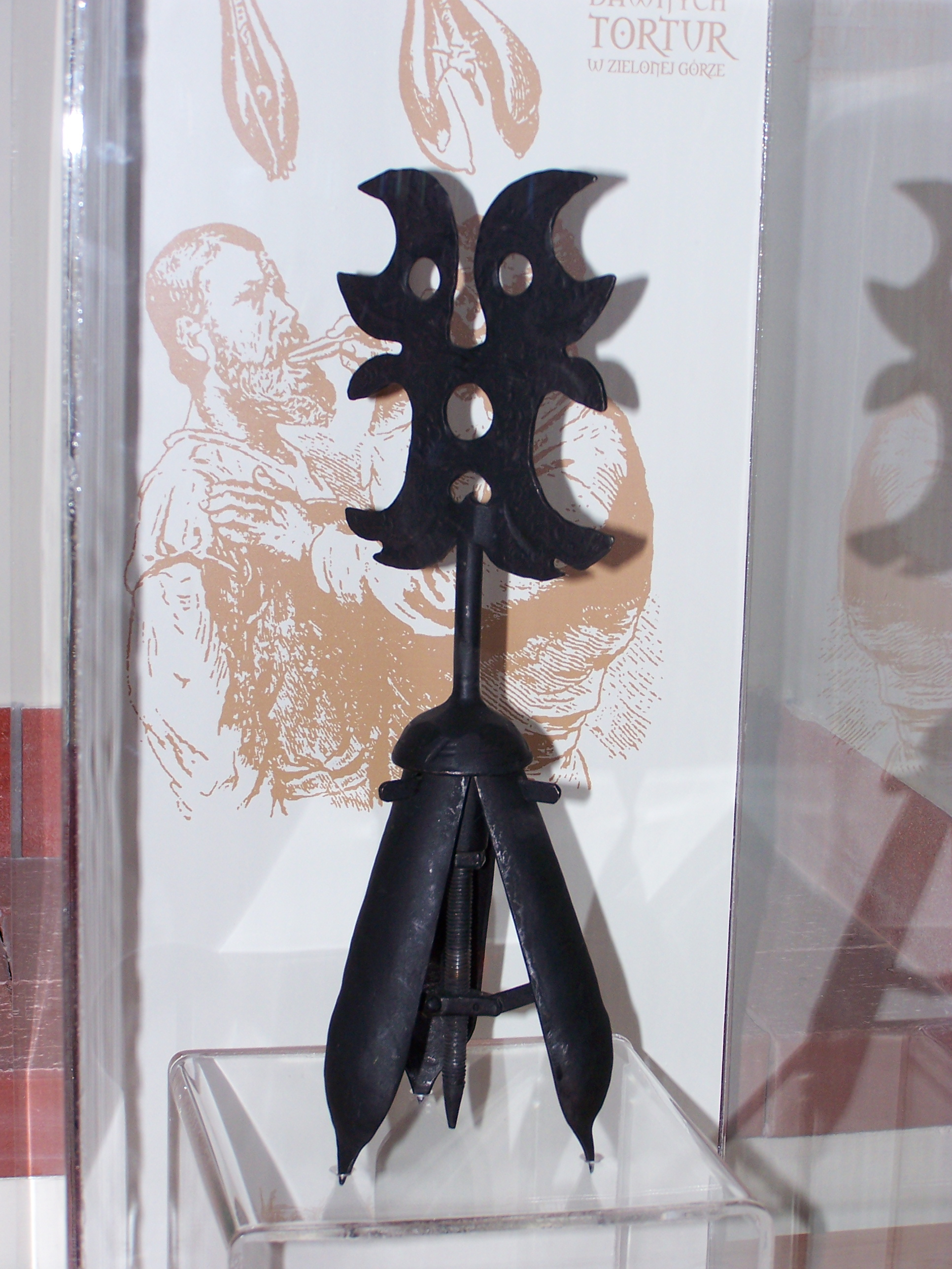 The Pear of Anguish. Torture museum in Lubuska Land Museum in Zielona Góra.